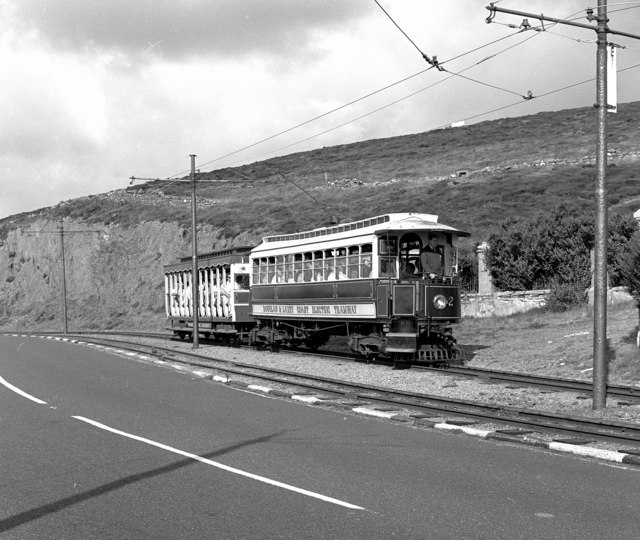 Manx Electric Railway, Howstrake Car No 2 and trailer head north.